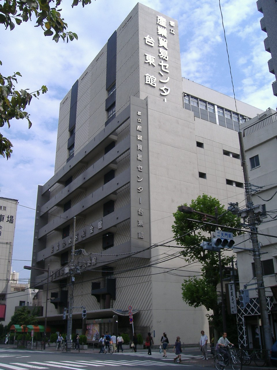 Convention center "Tokyo sangyo boueki Center"(Tokyo,Japan)